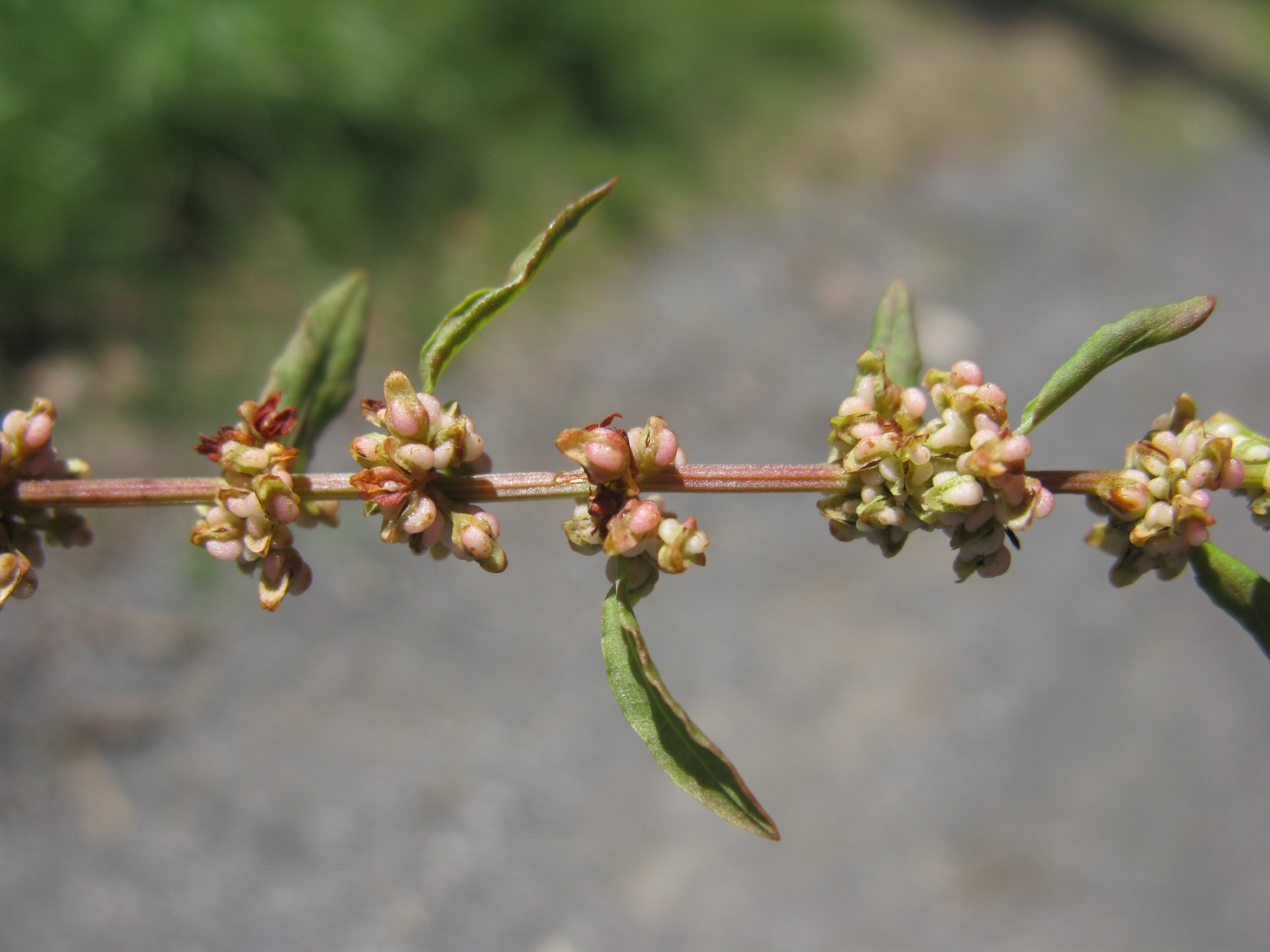 Rumex conglomeratus clusters1